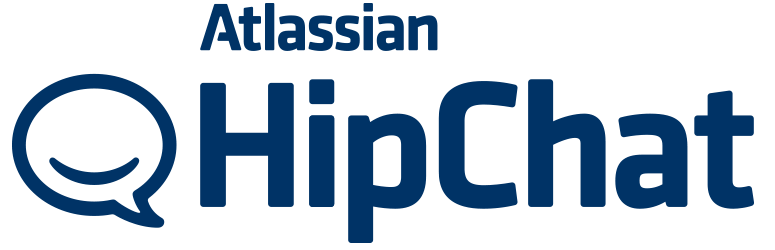 Free use per PD-textlogo rules.